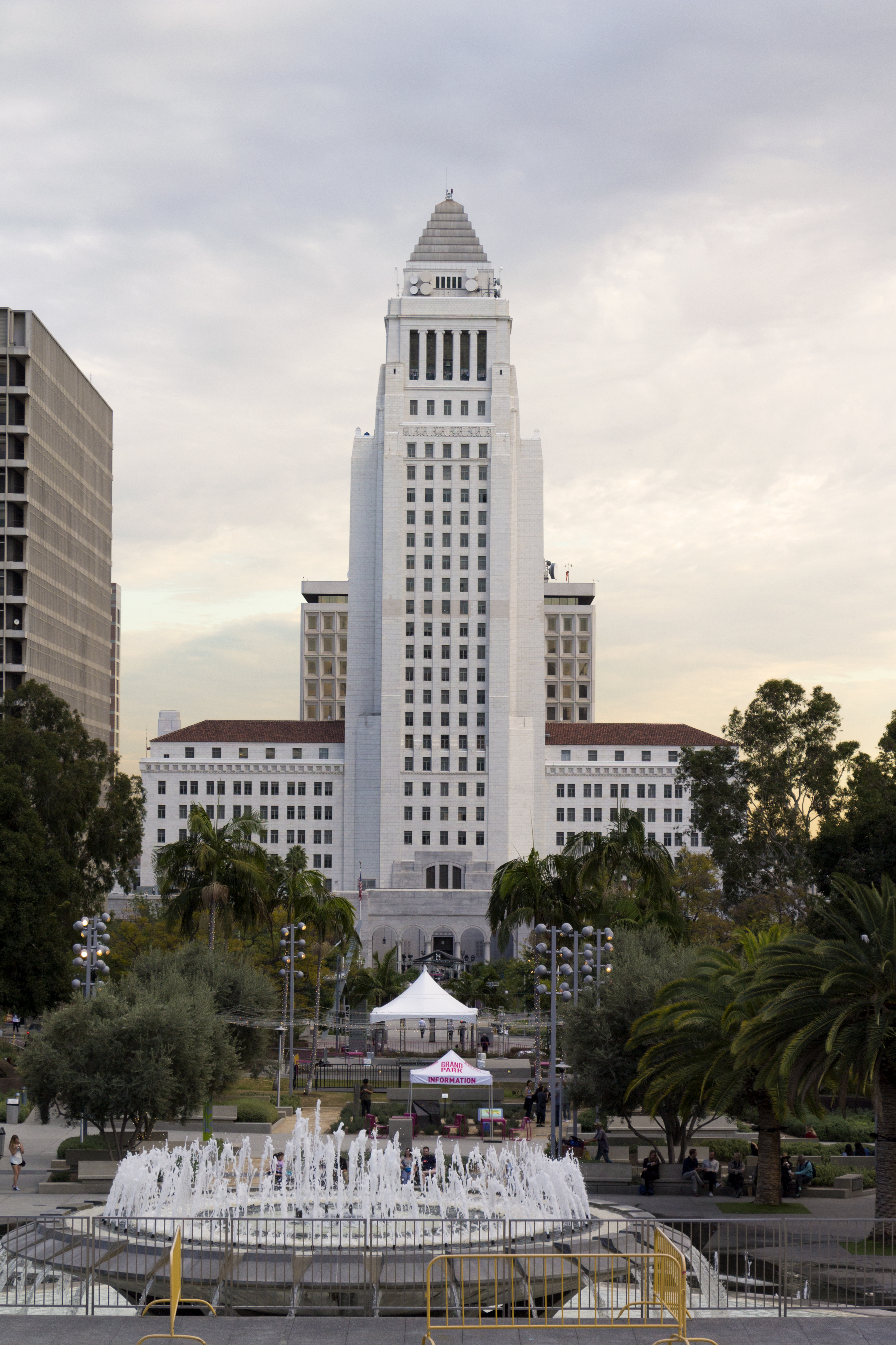 Los Angeles town hall as seen from Grand Park